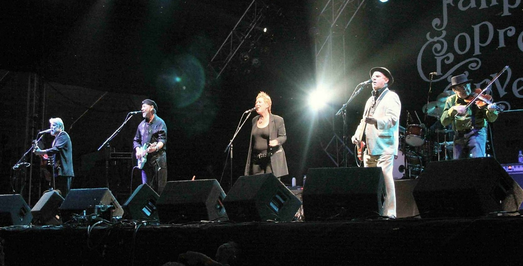 Fairport Convention Liege & Lief 40th Anniversary Concert Folk musical groups